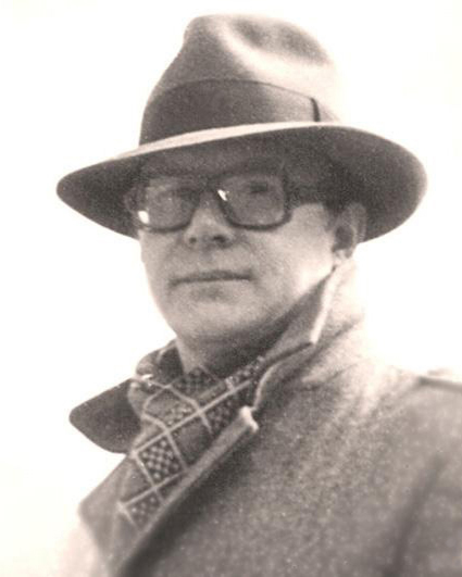 Vladimir Lukyanov (b. 1945) — Soviet, Russia's architect and artist, author of the Obelisk "Hero-city of Leningrad" (Sankt-Peterburg) and other monumental objects. Architect Vladimir Lukyanov early in his career to engage in architectural design of large ocean-going vessels. He designed buildings and facilities for Siberia and the Far North. The author creates paintings and graphic works of classical subjects and themes of world classics. The author of this photo V. Turchaninov, Saint Petersburg (1985-04-11)